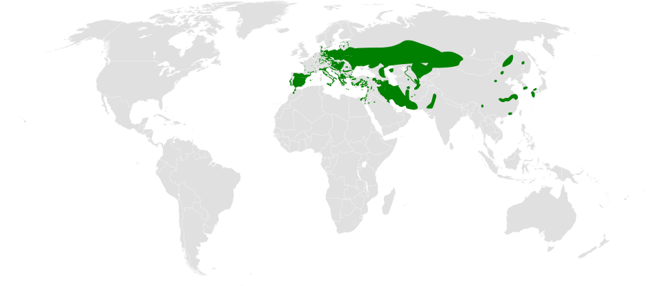 Remiz distribution map; using BlankMap-World6.svg, based on